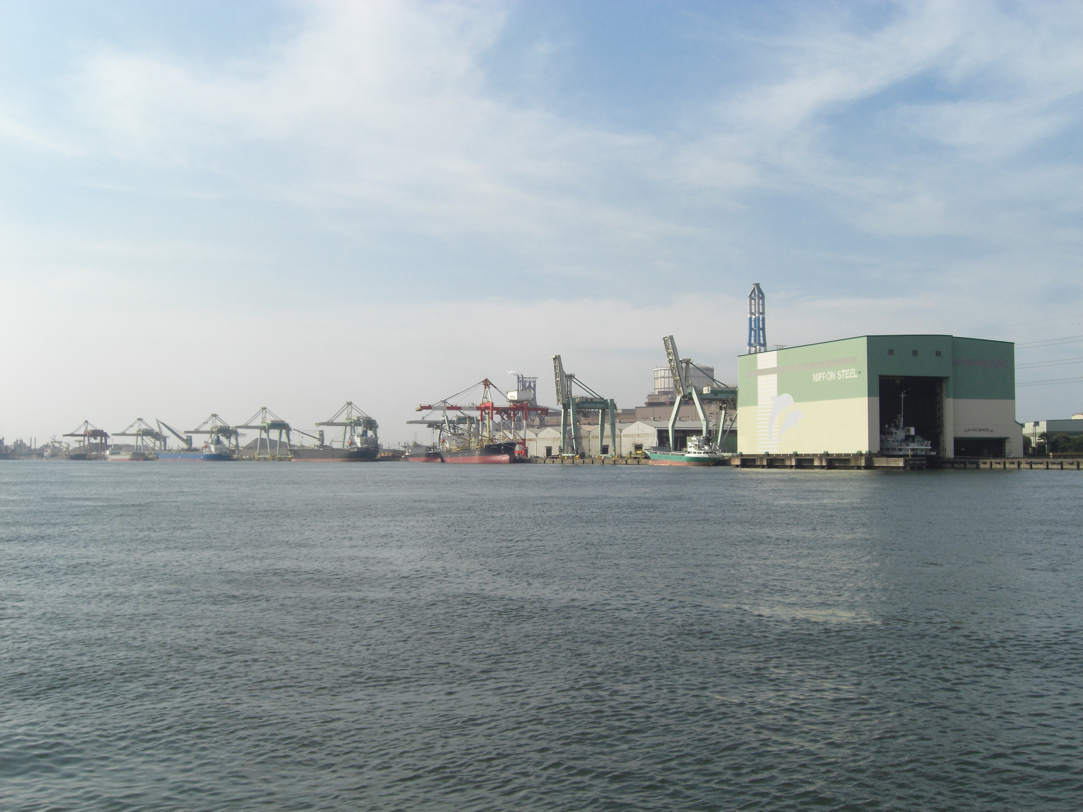 Nippon Steel Corporation Kimitsu Works Westquay